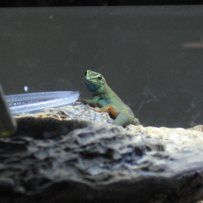 A captive female L. williamsi waits expectantly by her food cup.